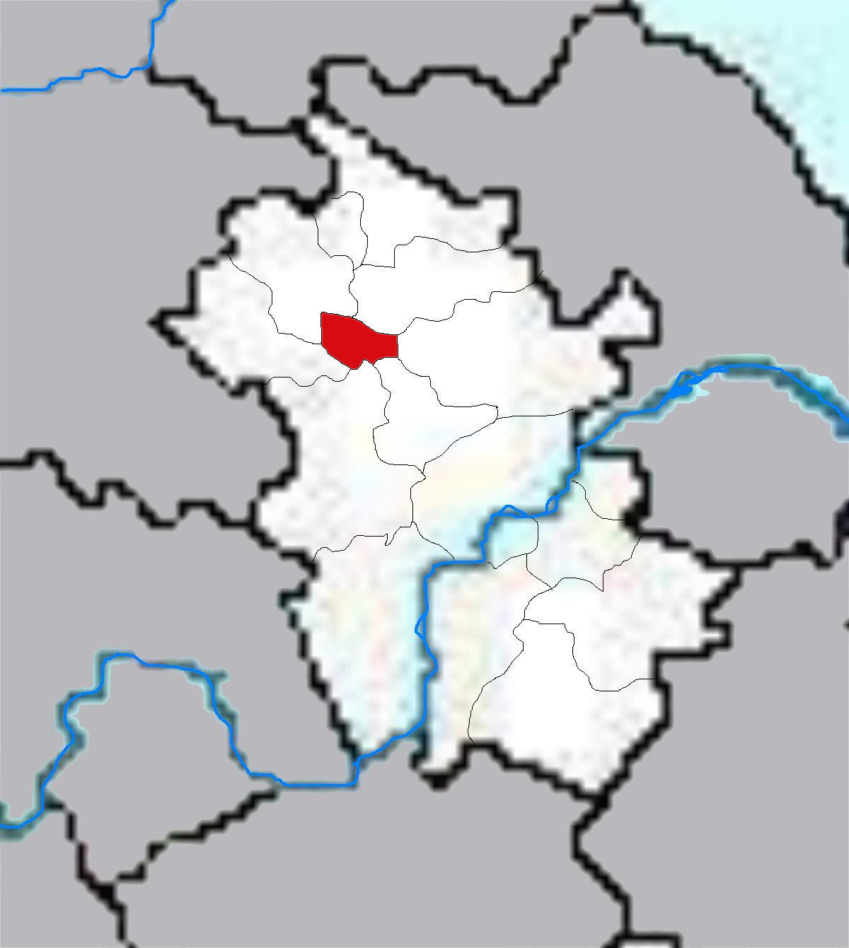 Maps of Anhui Province of China